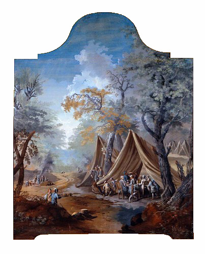 The Staff's Supper, by Carlo Lodi and Antonio Rossi. The frame has been removed from the source image.